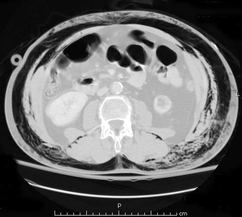 Modified image of Image:Subcutaneous emphysema abdomen.jpg. CT scan of a patient with severe subcutaneous emphysema. Abdominal CT.